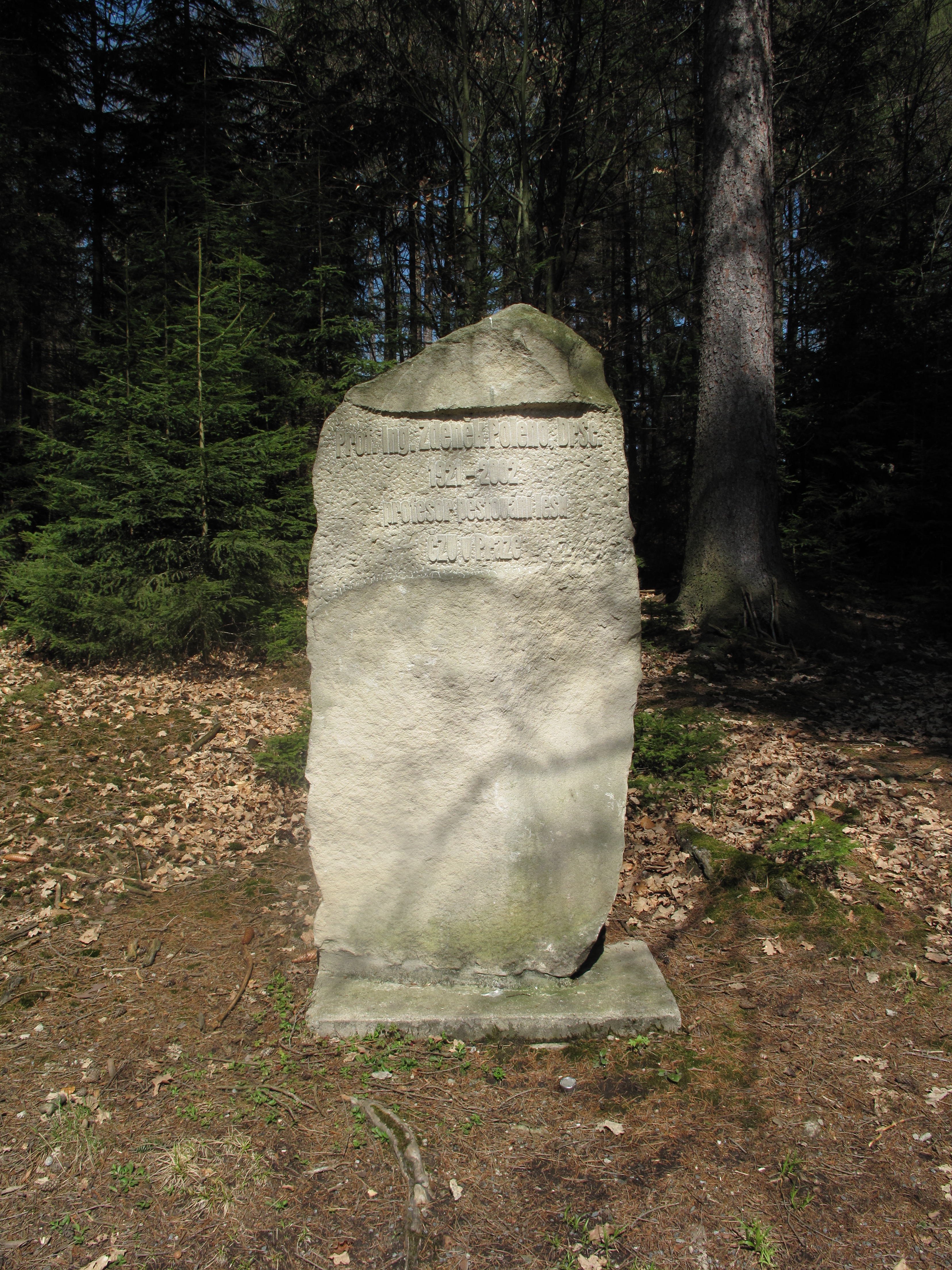 Memorial tu Zdeněk Poleno in Voděrady Beechwood placed in front of the so called Chancellor's cottage placed on the bank of Švýcar Pond. Prague-East District, Czech Republic. On the memorial the following statement in the Czech language is written:Prof. Ing. Zdeněk Poleno, DrSc.1921-2002profesor pěstování lesůČZU v Praze. Translation by Juan de Vojníkov: Prof. Ing. Zdeněk Poleno, DrSc.1921-2002profesor of forest cultivationCULS Prague, when CULS means Czech University of Life Sciences. This photograph was taken within the scope of the 'Czech Municipalities Photographs' grant.